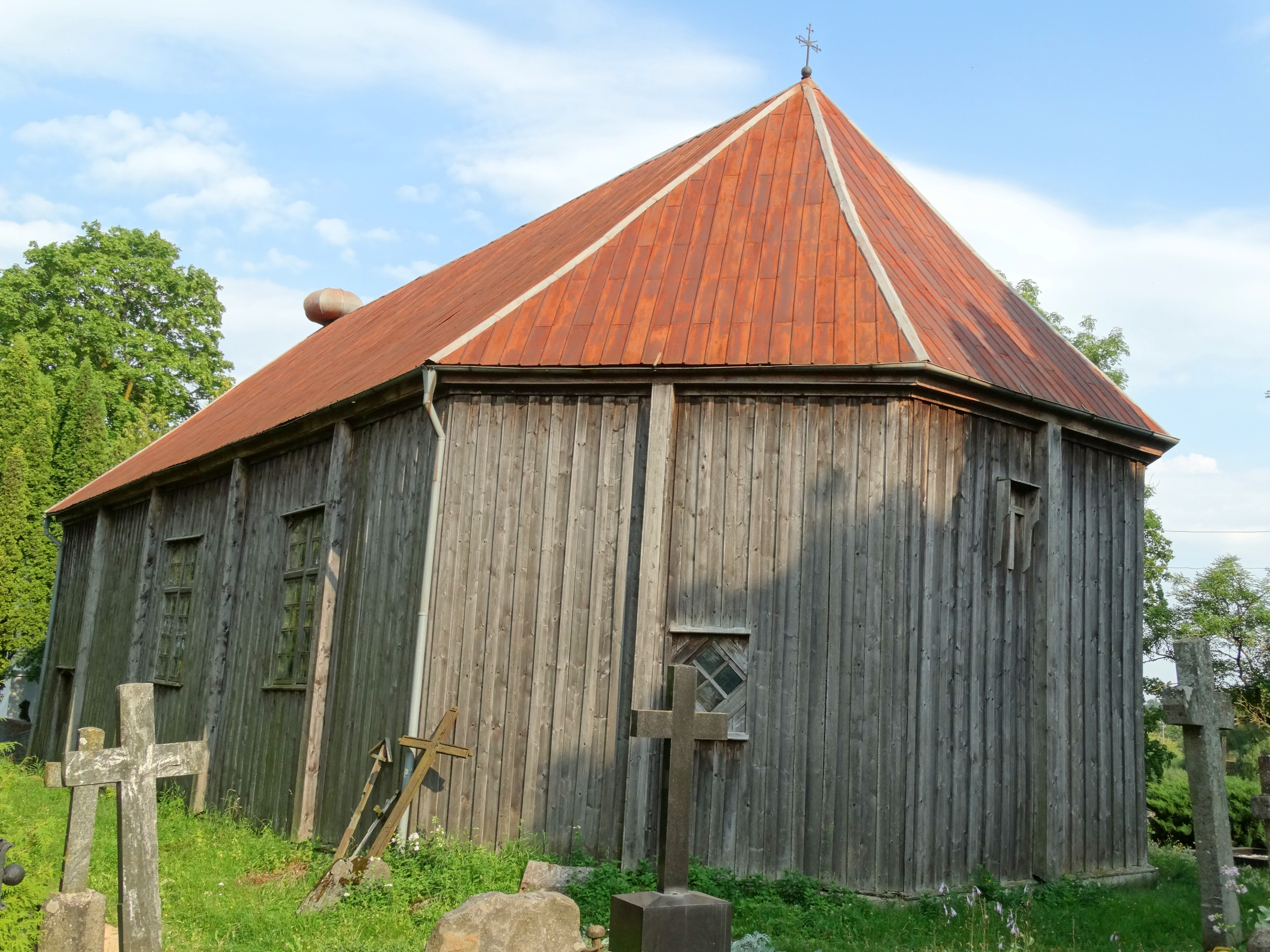 Raktuvė cemetery chapel, Žagarė, Joniškis district, Lithuania